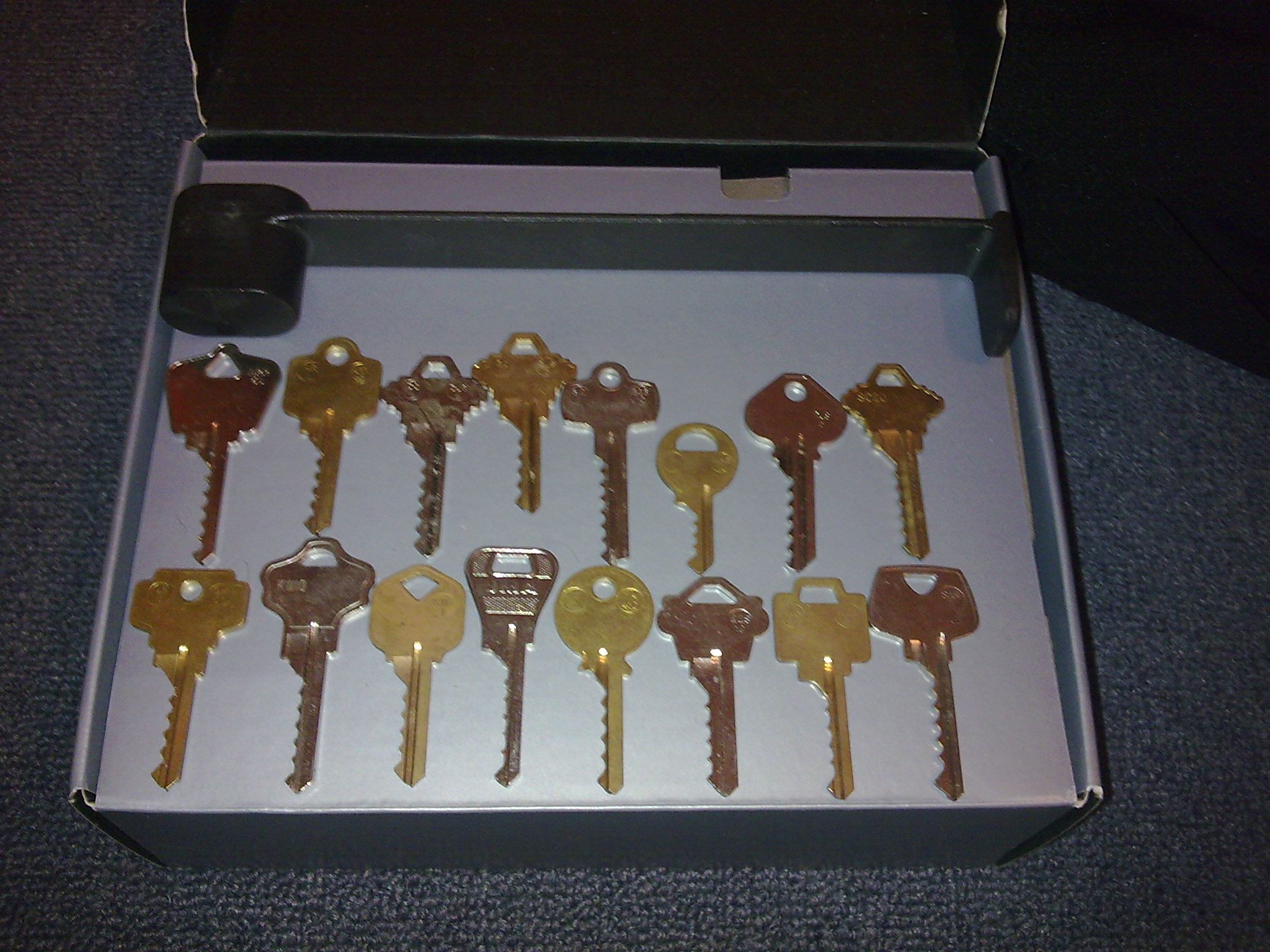 16 piece bumpkey set plus bonus weighted hammer